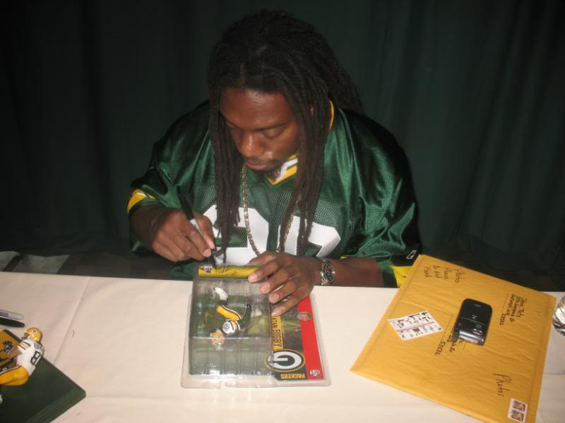 Atari Bigby signing autographs in 2008.